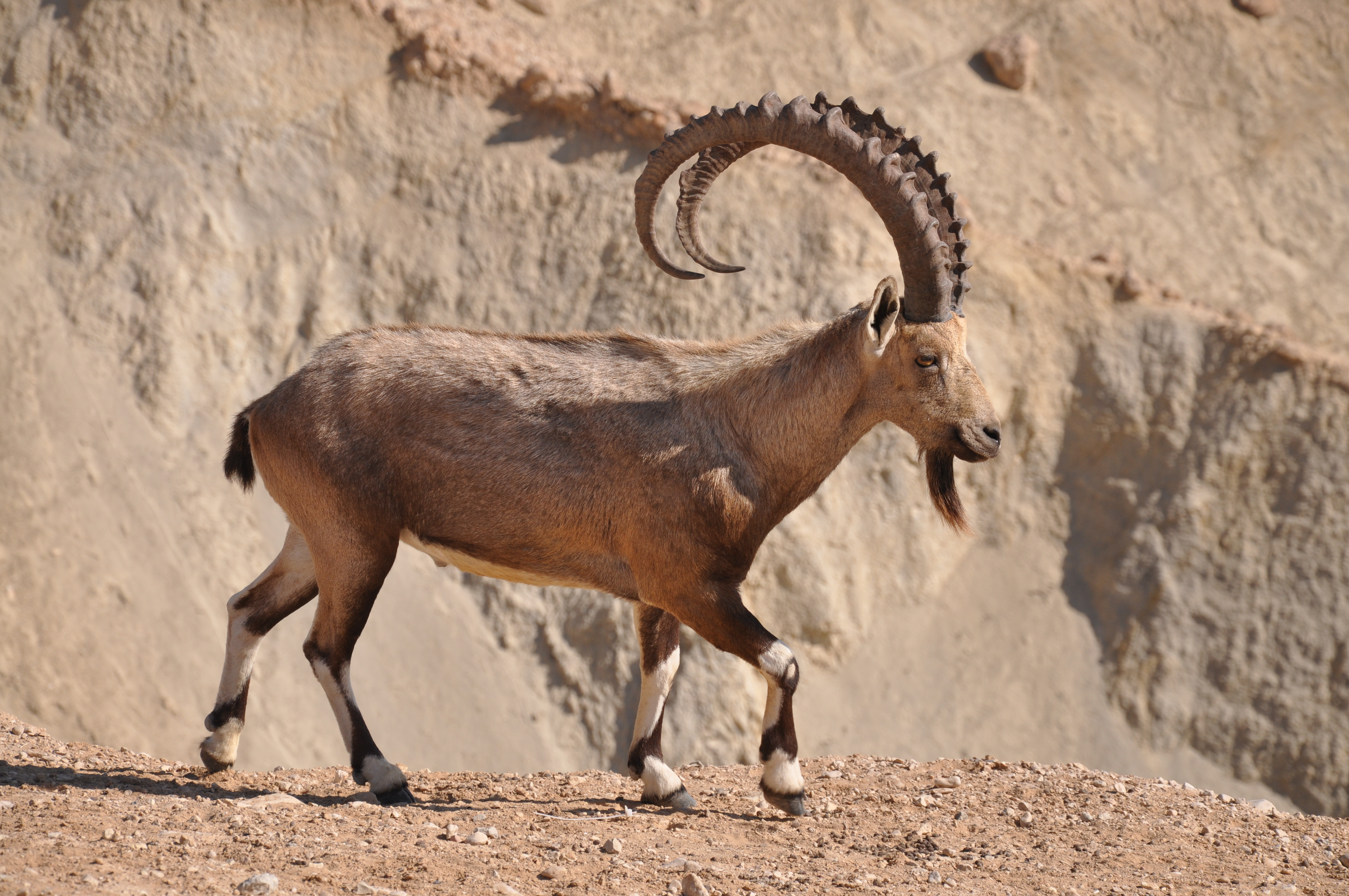 Male Ibex, Nature and Colors